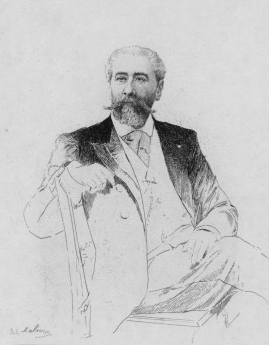 French poet José-Maria de Heredia (1842-1905) by Adolphe Lalauze (1838-1905)